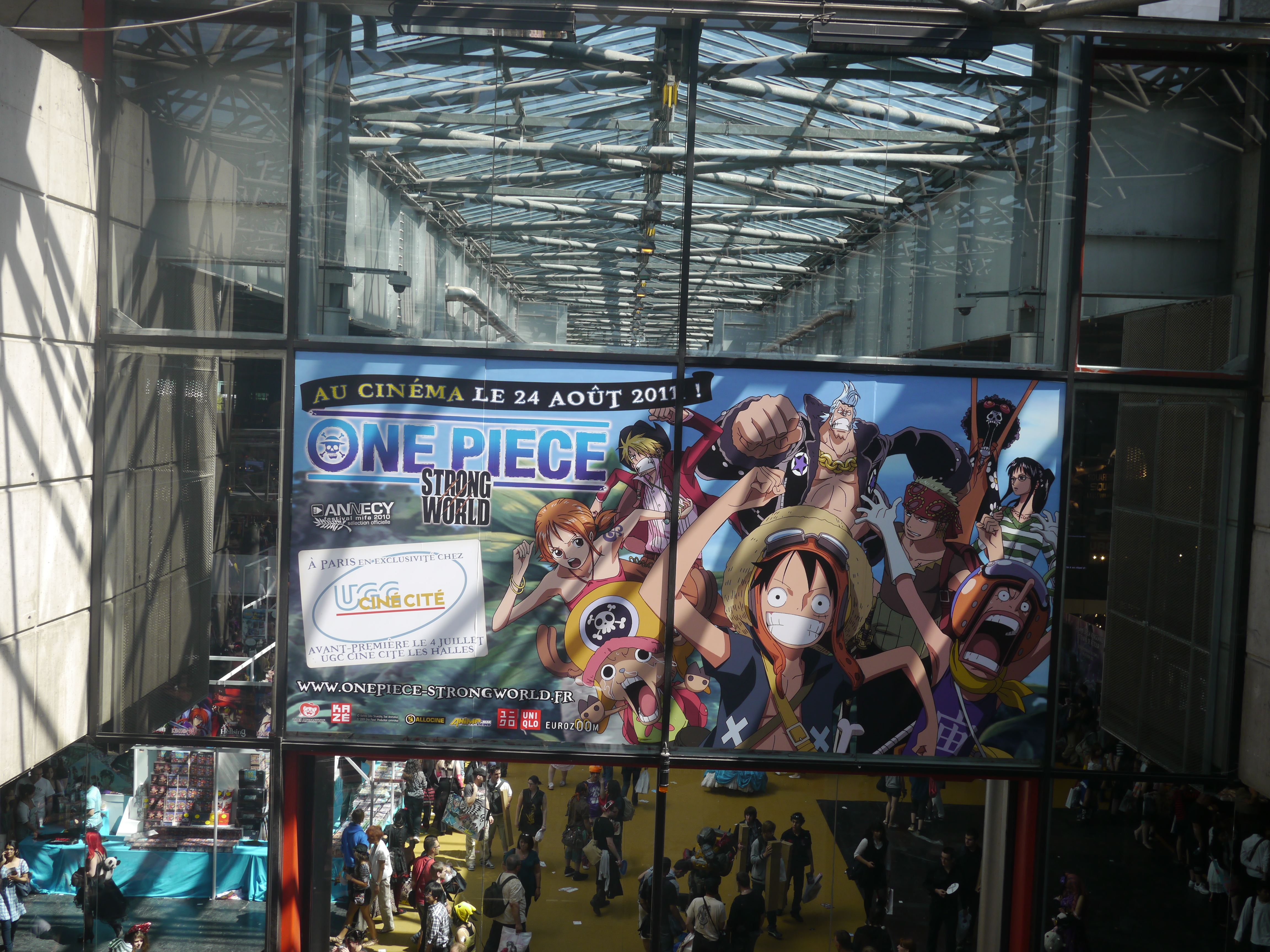 Japan Expo Festival, 12th impact